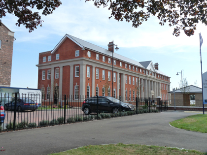 A view of the Shorten Building fully refurbished.